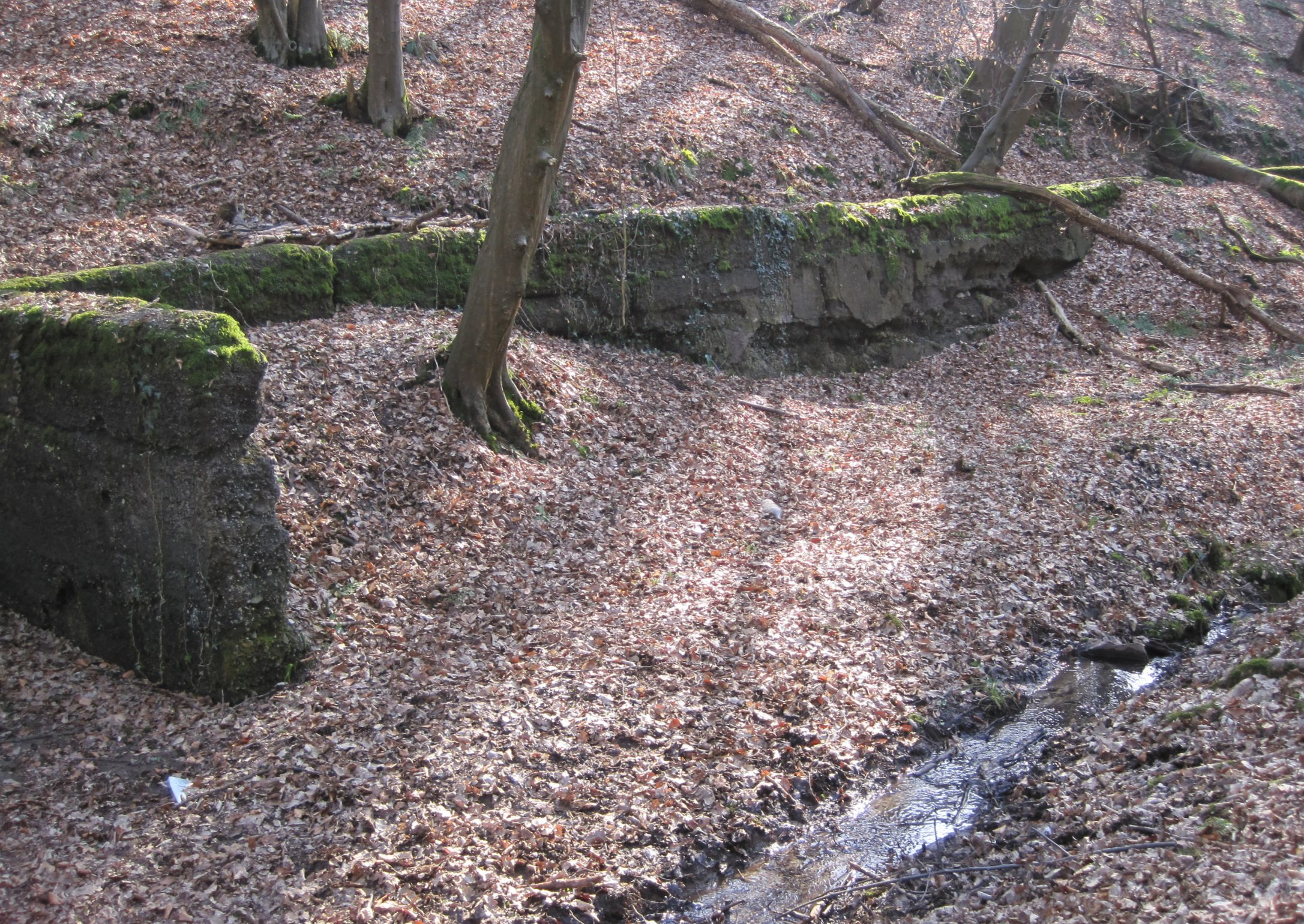 Grube Pilot, remains of ore-dressing facilities